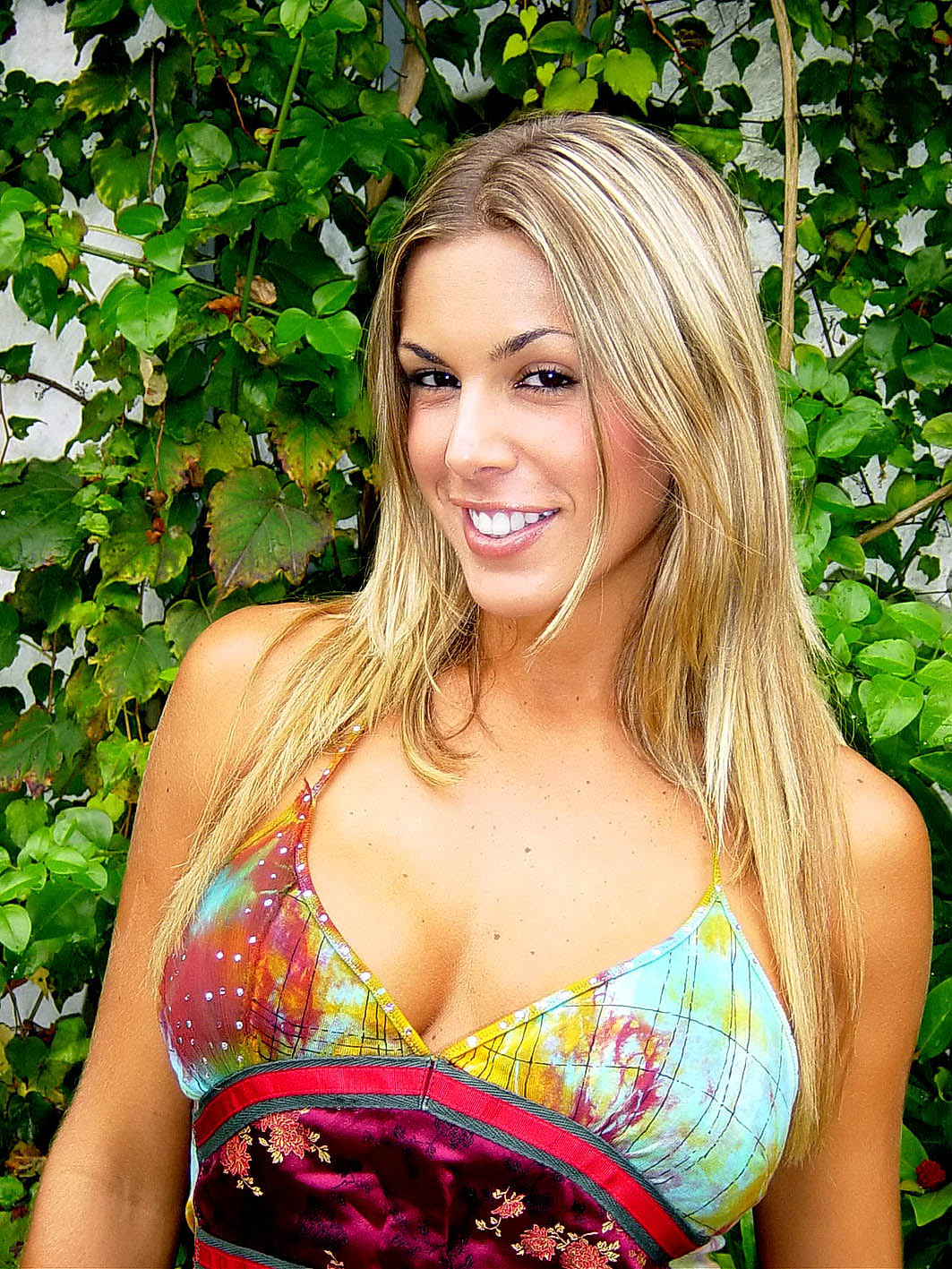 Brazilian TV Celebrity Joana Prado.